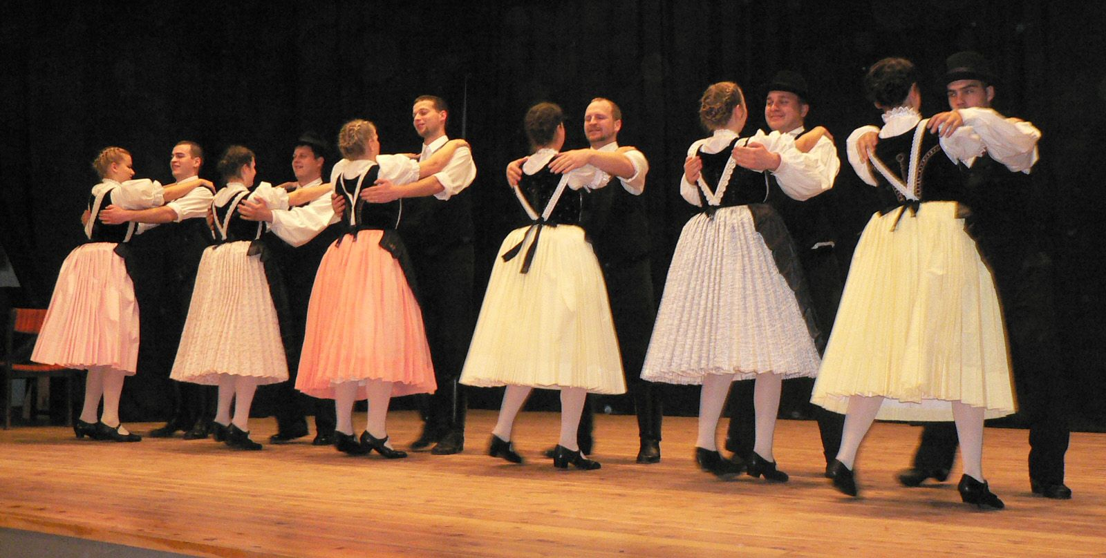 Hétlépés (2007)